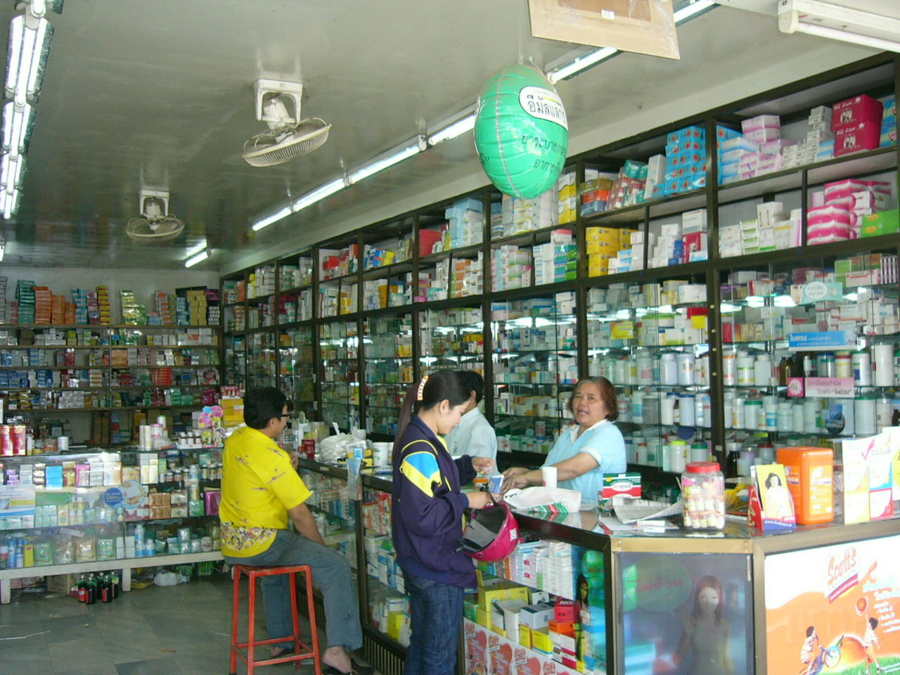 Pharmacy in Sakon Nakhon, Thailand.